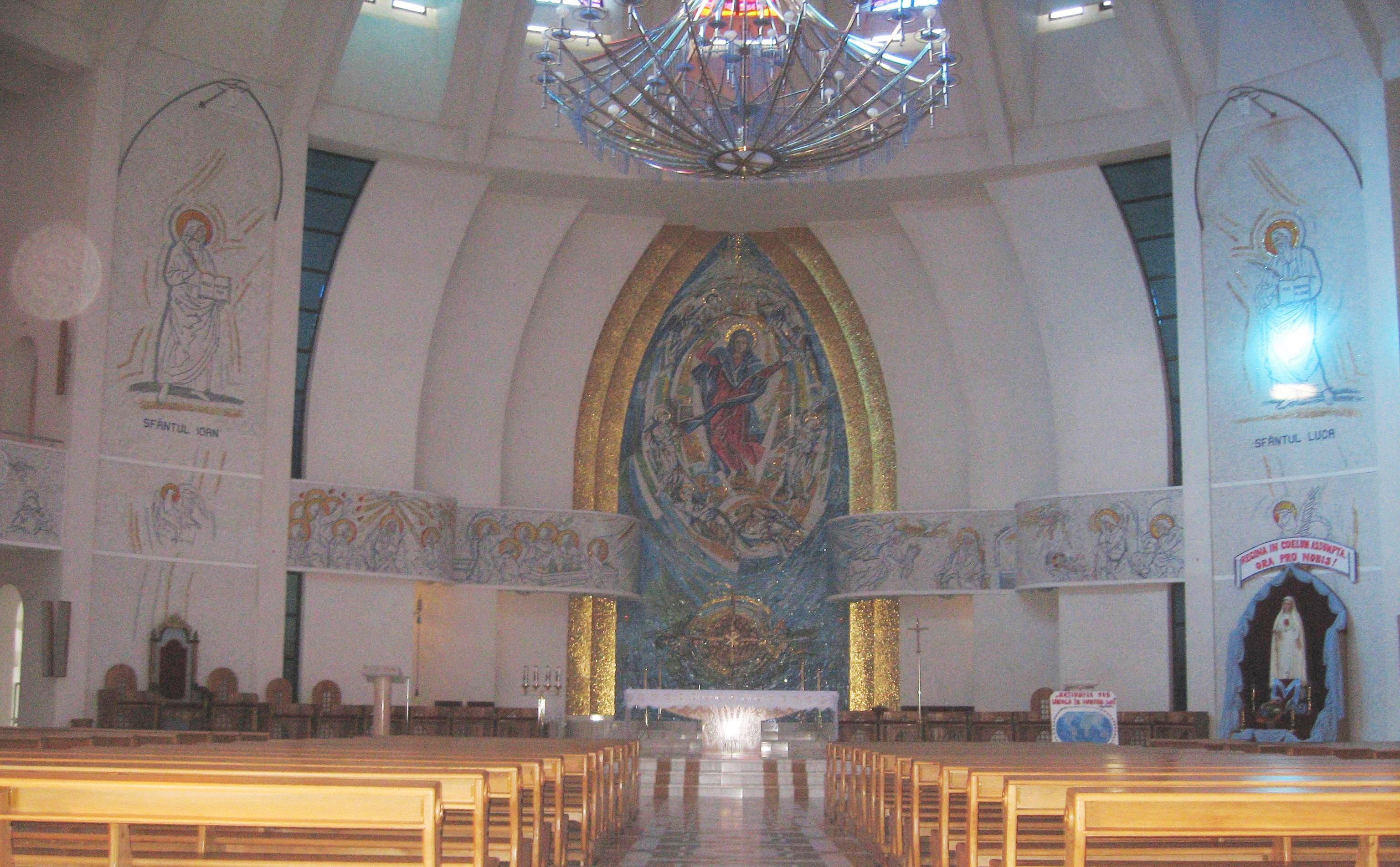 Catedrala Sfânta Maria Regină din Iaşi